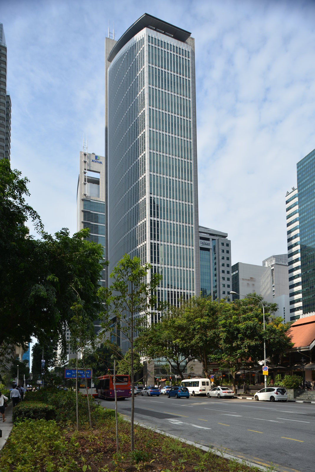 SGX Centre at 2 Shenton Way, Singapore, where the Singapore Exchange is based.